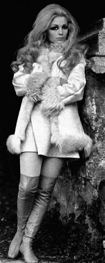 Italian singer Patty Pravo